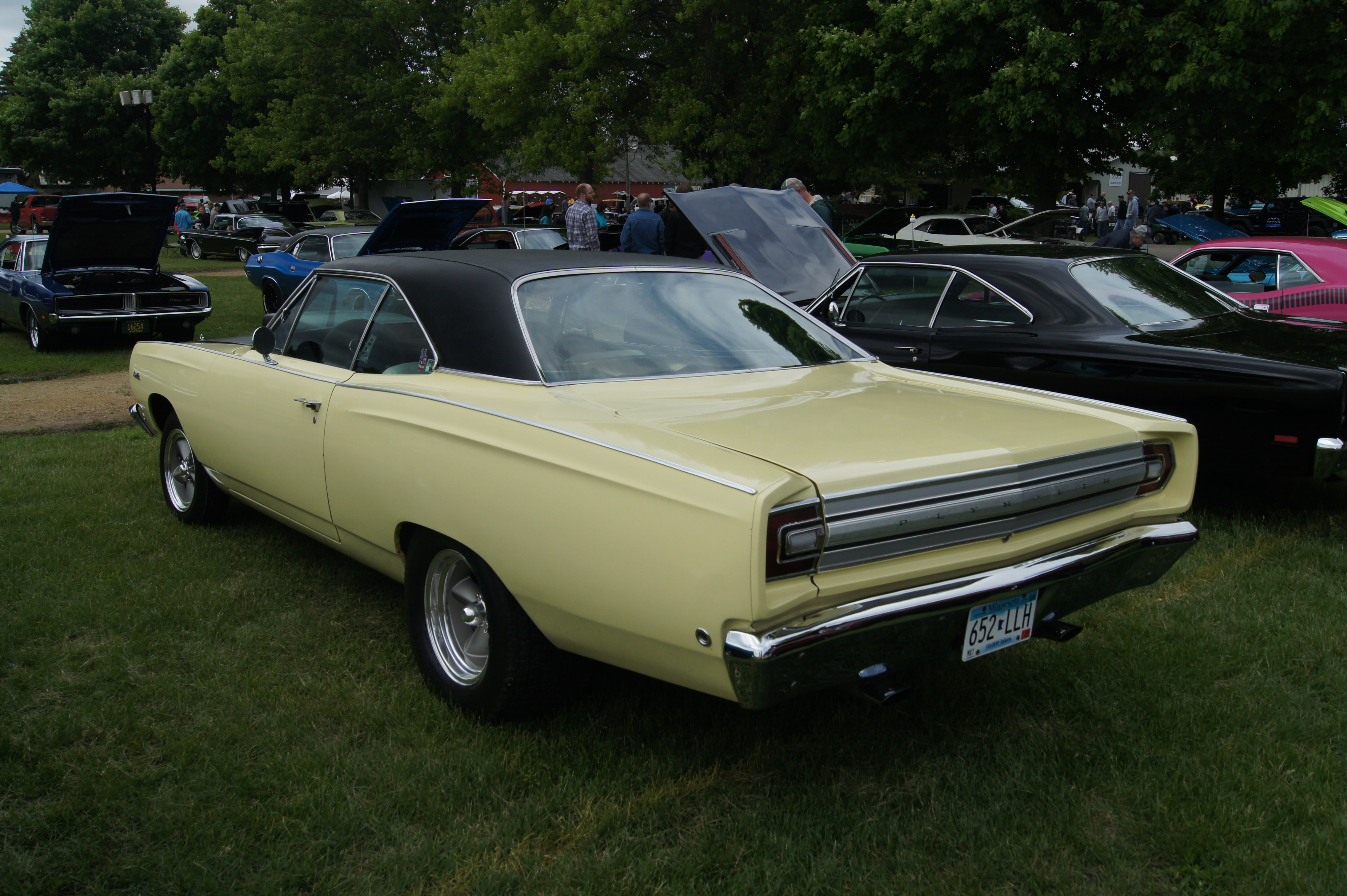 Midwest Mopars in the Park National Car Show & Swap Meet Dakota County Fairgrounds Farmington, Minntesota May 30 & 31, 2015 Click here for more car pictures at my Flickr site.